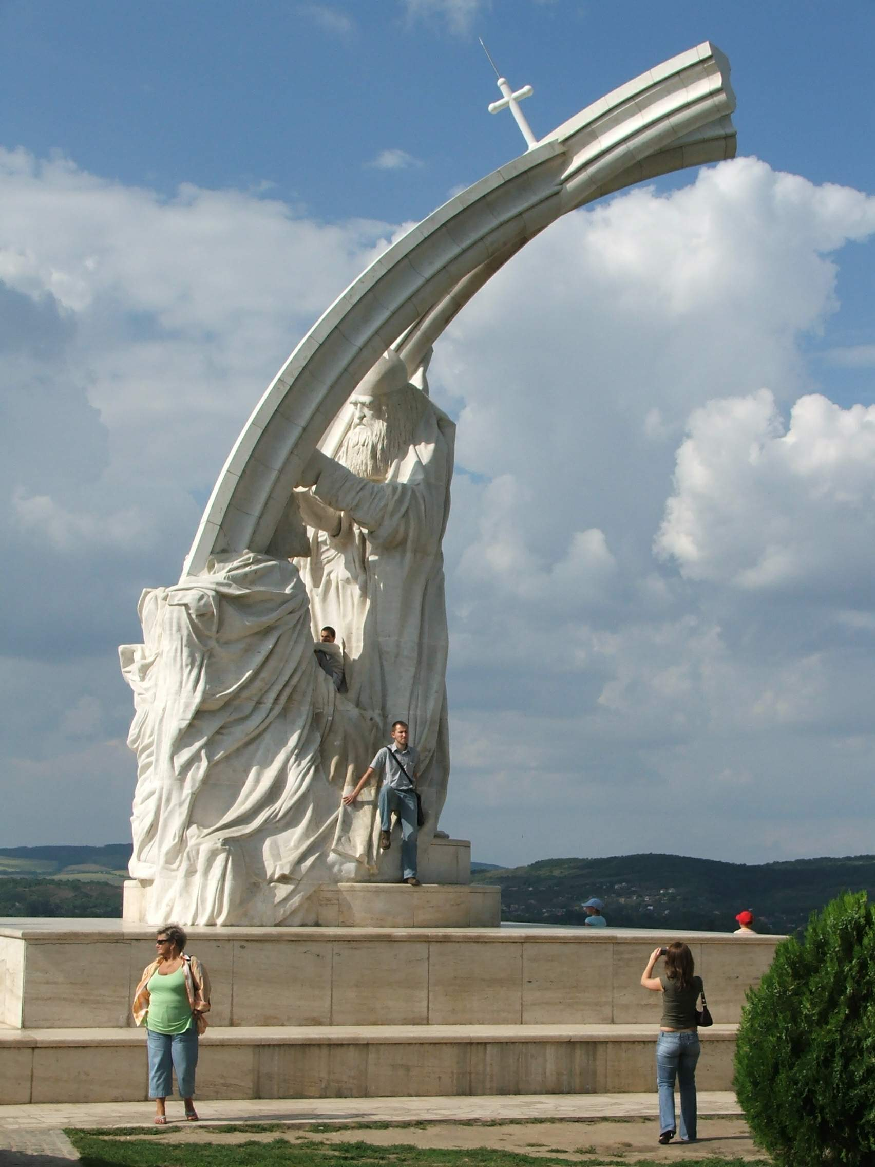 Miklós Melocco's statue of the coronation of St. Stephen in Esztergom